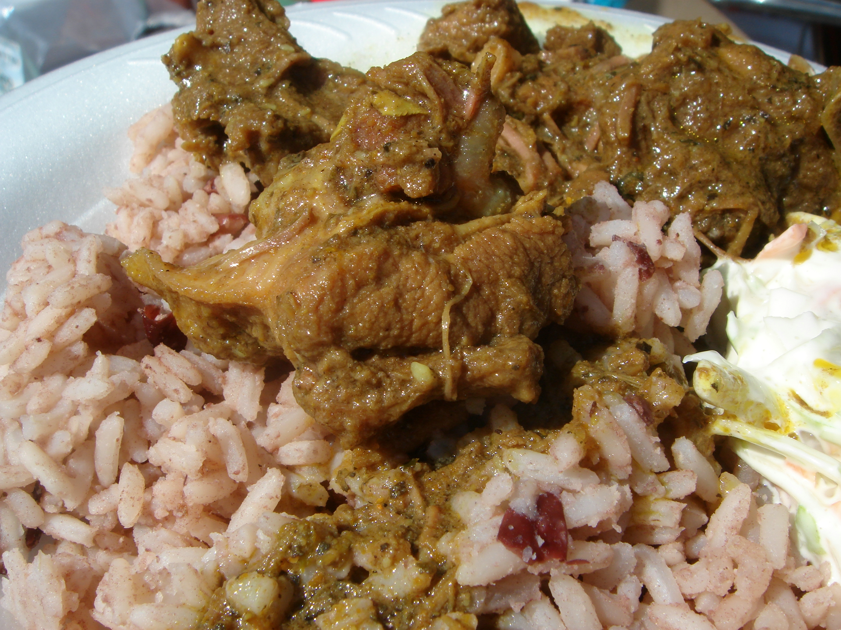 Image of Curry Goat and rice at Notting Hill Carnival 2007